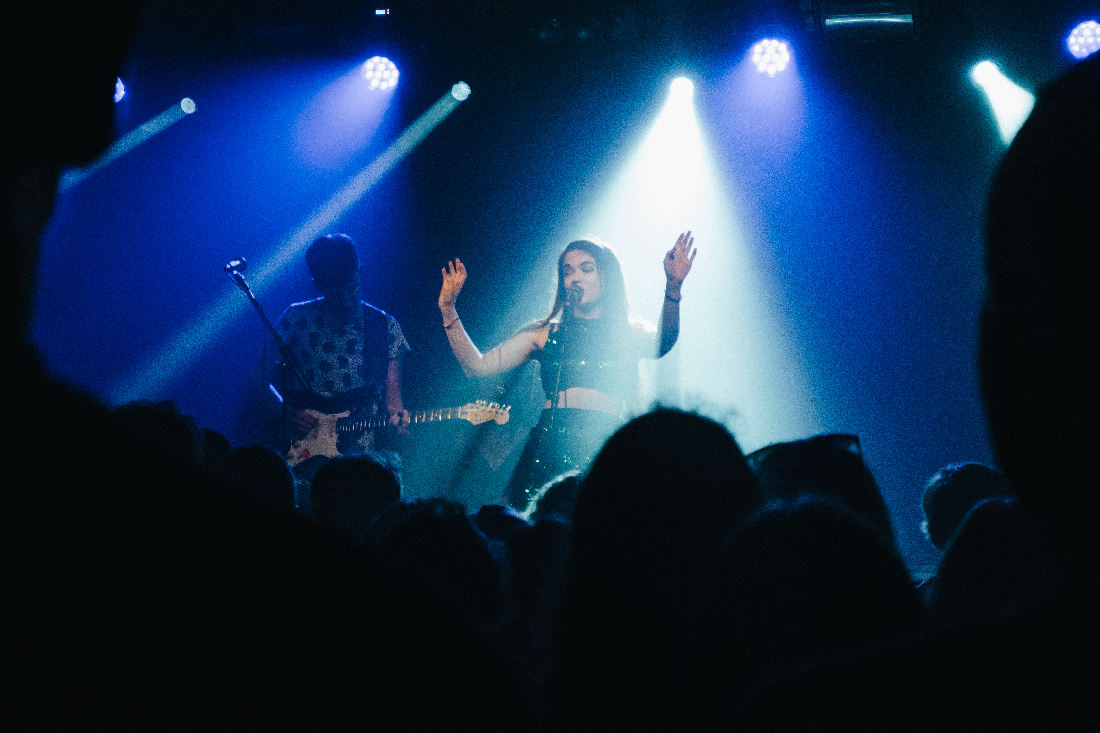 Dream Nails